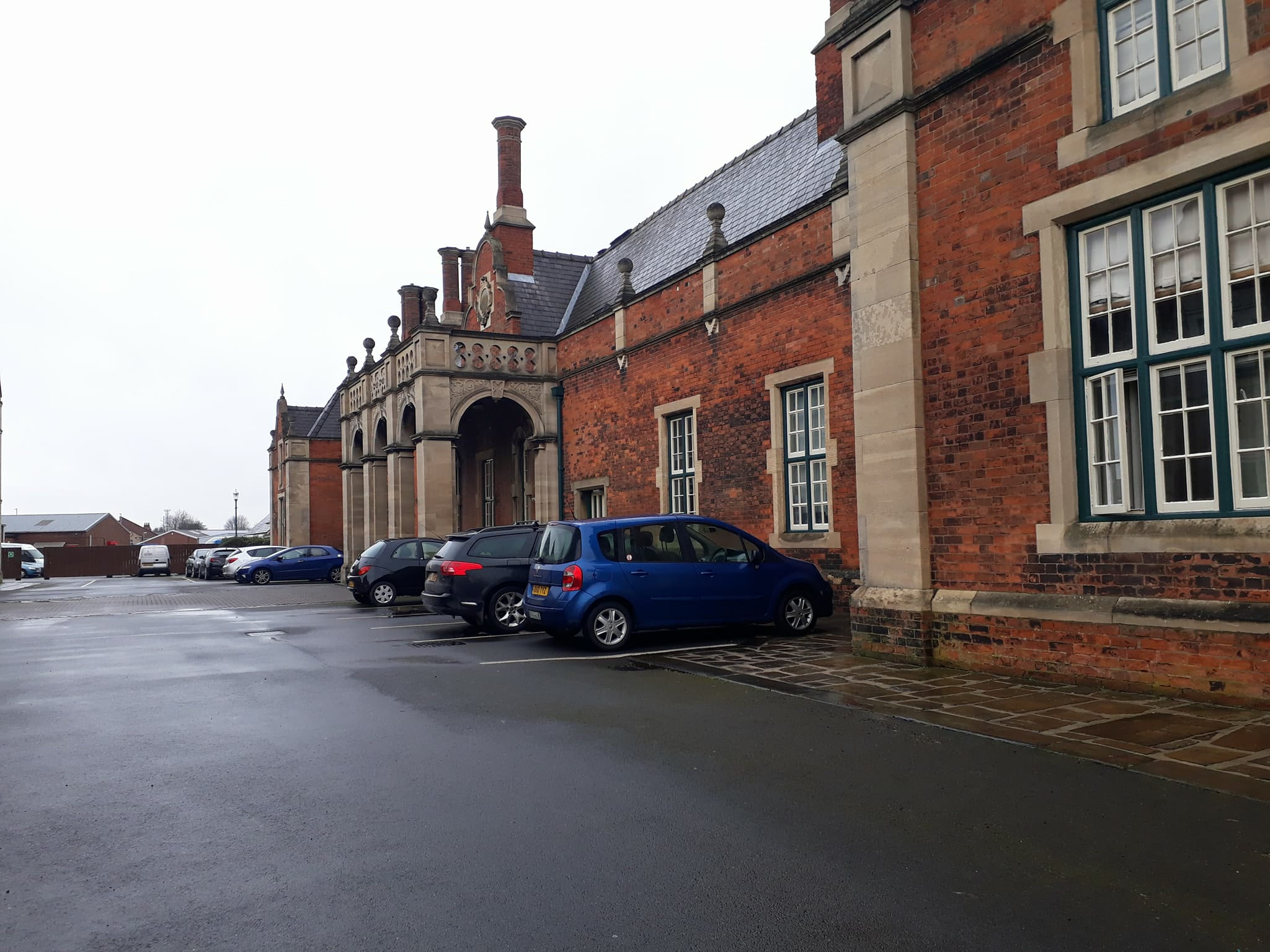 My own.